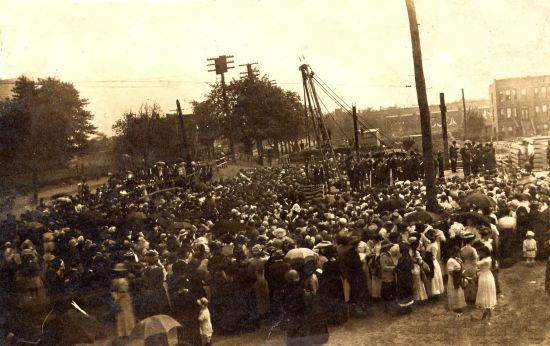 Breaking Ground in 1913 for Bay Ridge High School in Bay Ridge Brooklyn, New York